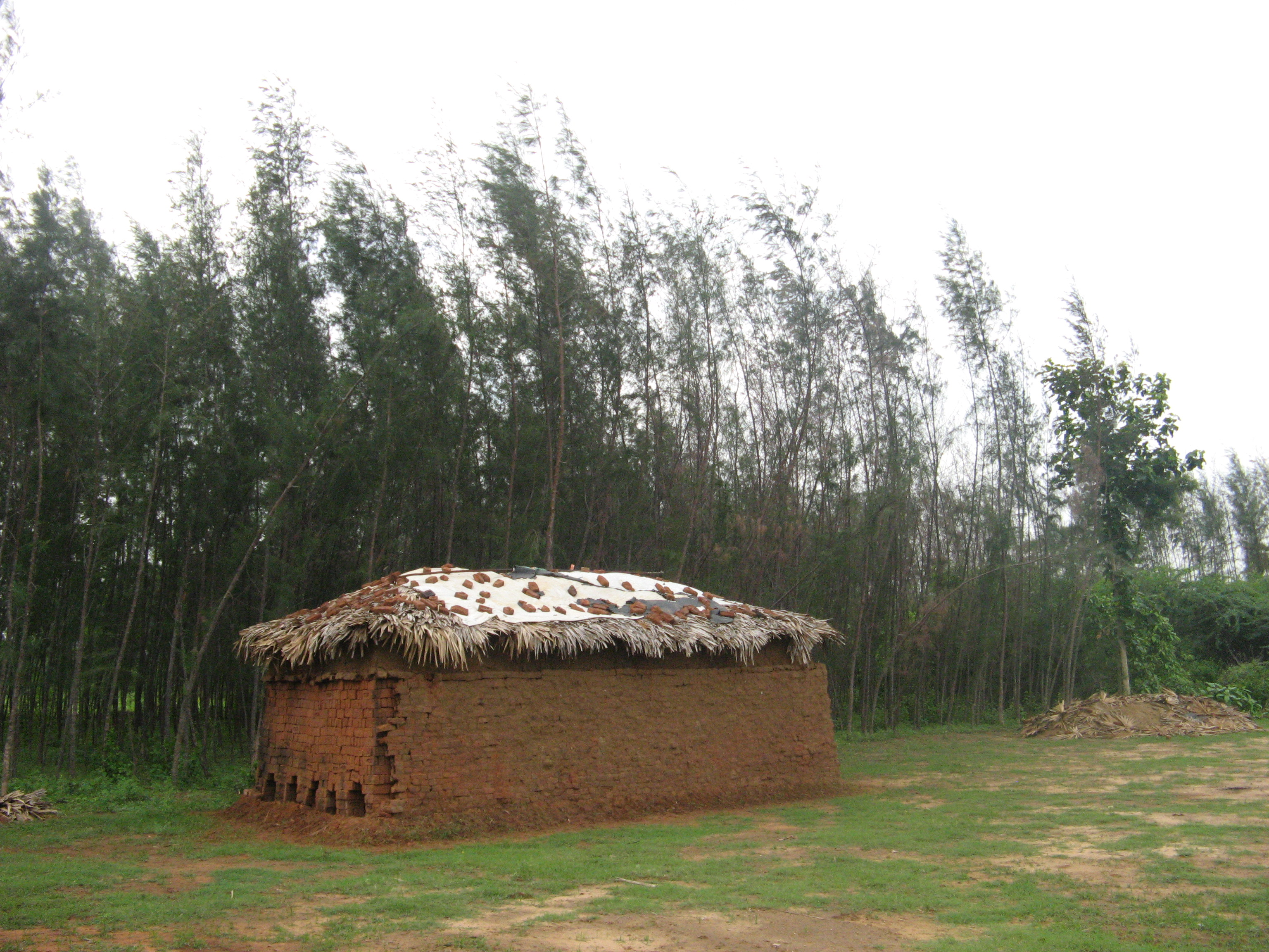 Brick kilns near Sanghivalasa, Visakhapatnam district